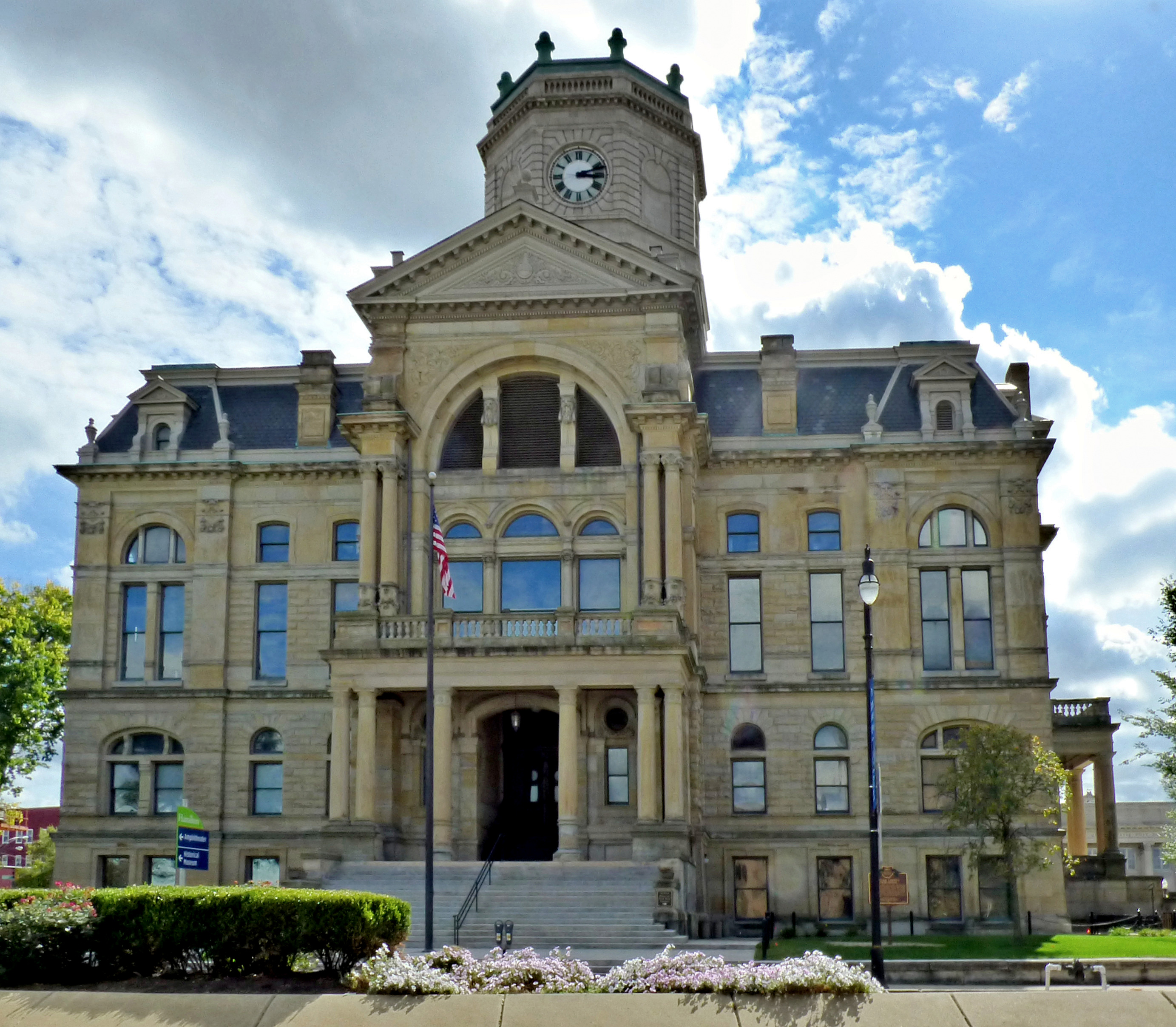 North face of Butler County Courthouse showing main entrance.